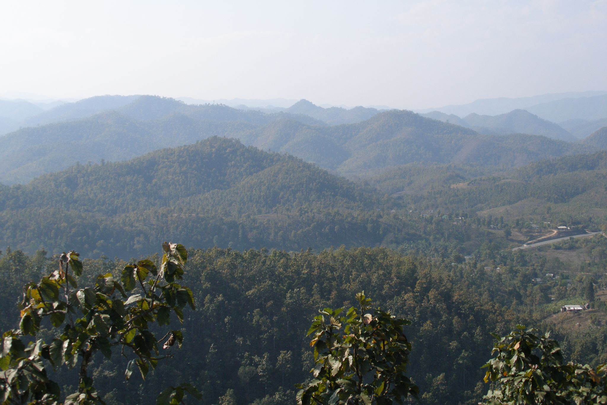 Mountains in Mae Hong Son Province, Thailand.